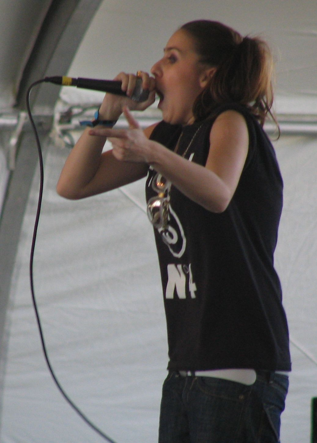 Lady Sovereign playing live at the 2006 Coachella Valley Music and Arts Festival